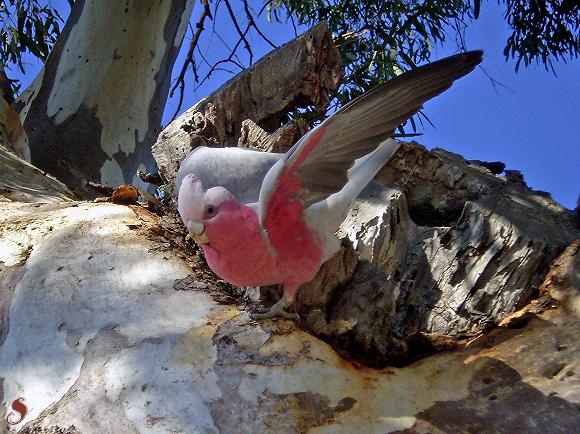 Galah (Eolophus roseicapilla) protecting its nest; Marion/Adelaide Parklands.